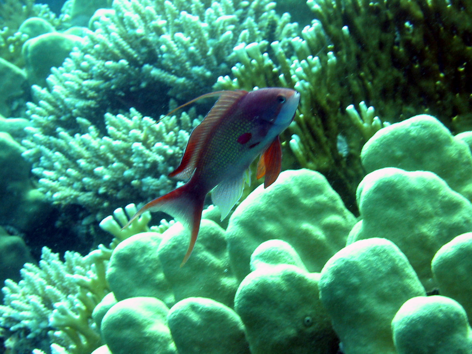 Male Sea goldie (Pseudanthias squamipinnis), Dahab, Gulf of Aqaba, Egypt. Alan Slater dahab 2003